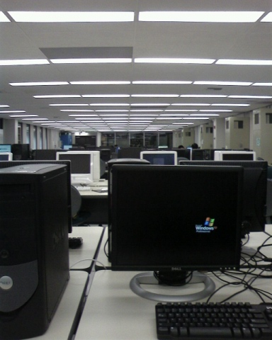 Donald Bren School of Information and Computer Sciences, ICS Building Lab 364. The primary lab for undergraduate work.